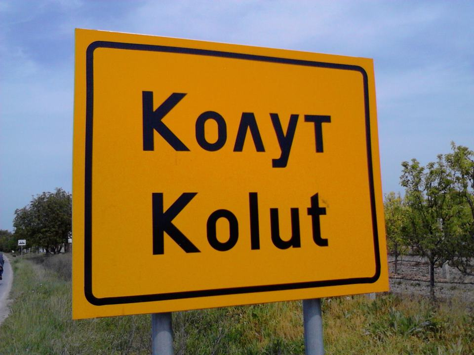 entrance to the village